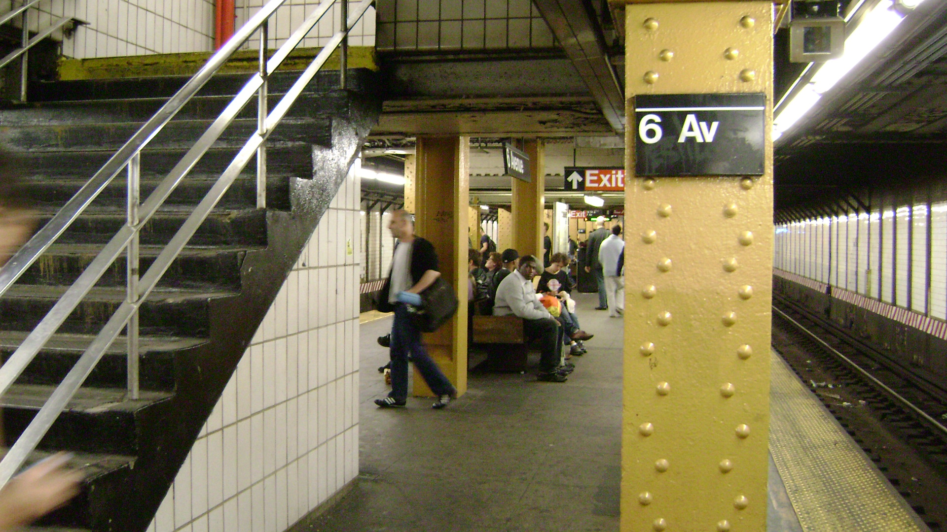 The Sixth Avenue subway station.